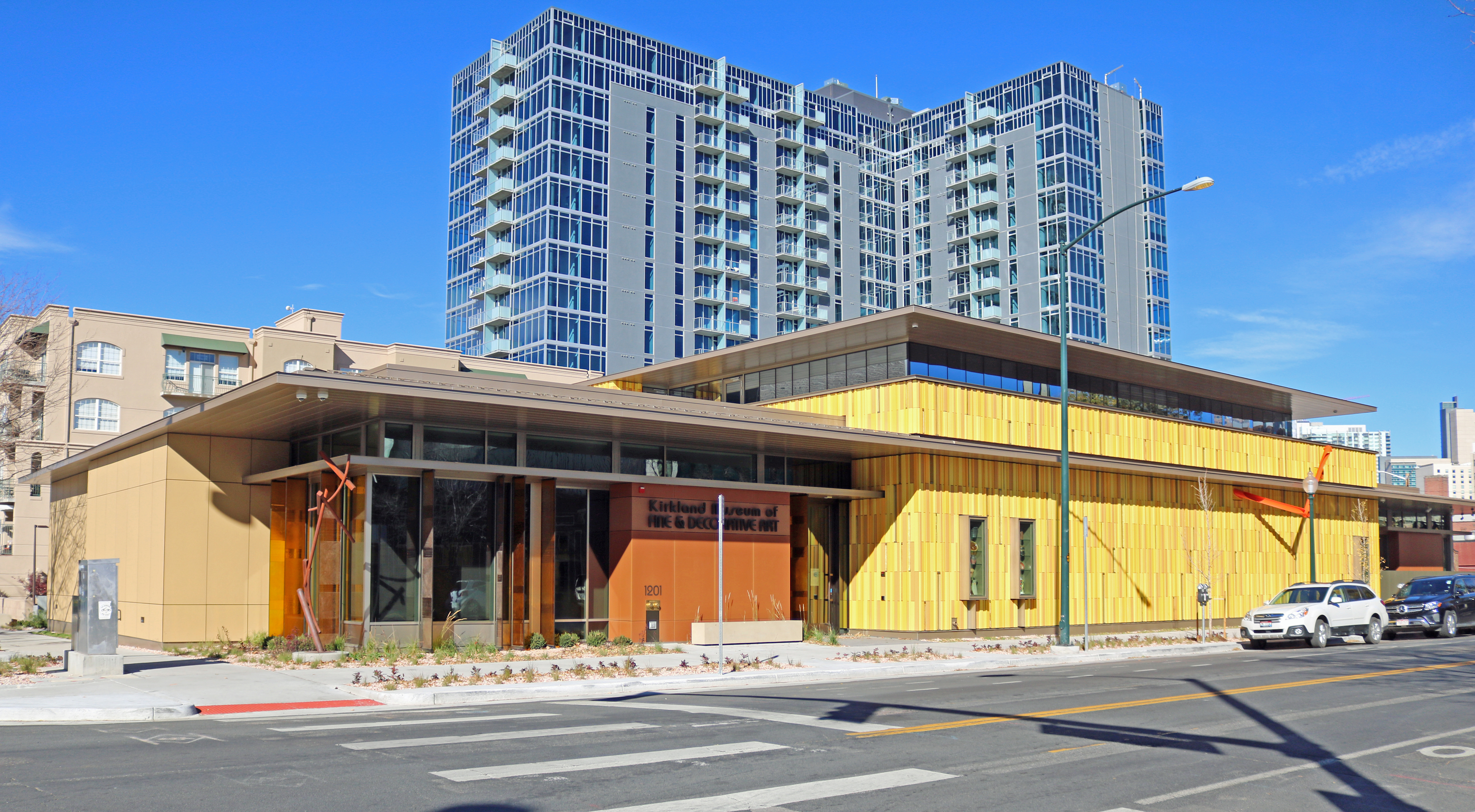 The Kirkland Museum of Fine & Decorative Art, located at 1201 Bannock Street in Denver, Colorado.